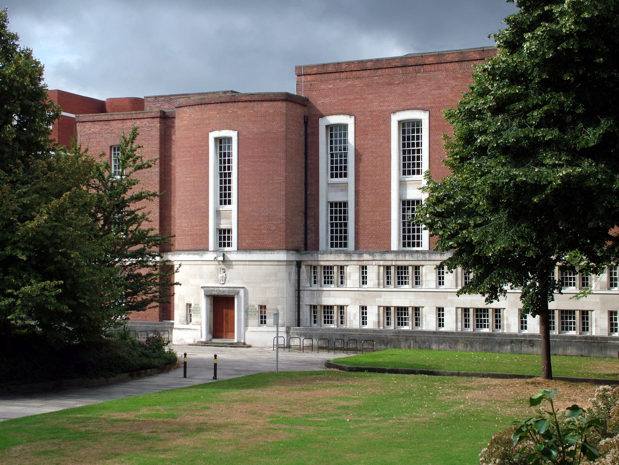 Main Library, John Rylands University Library, The University of Manchester, 2006. Photographer: David Subject to disclaimers. Subject to disclaimers.